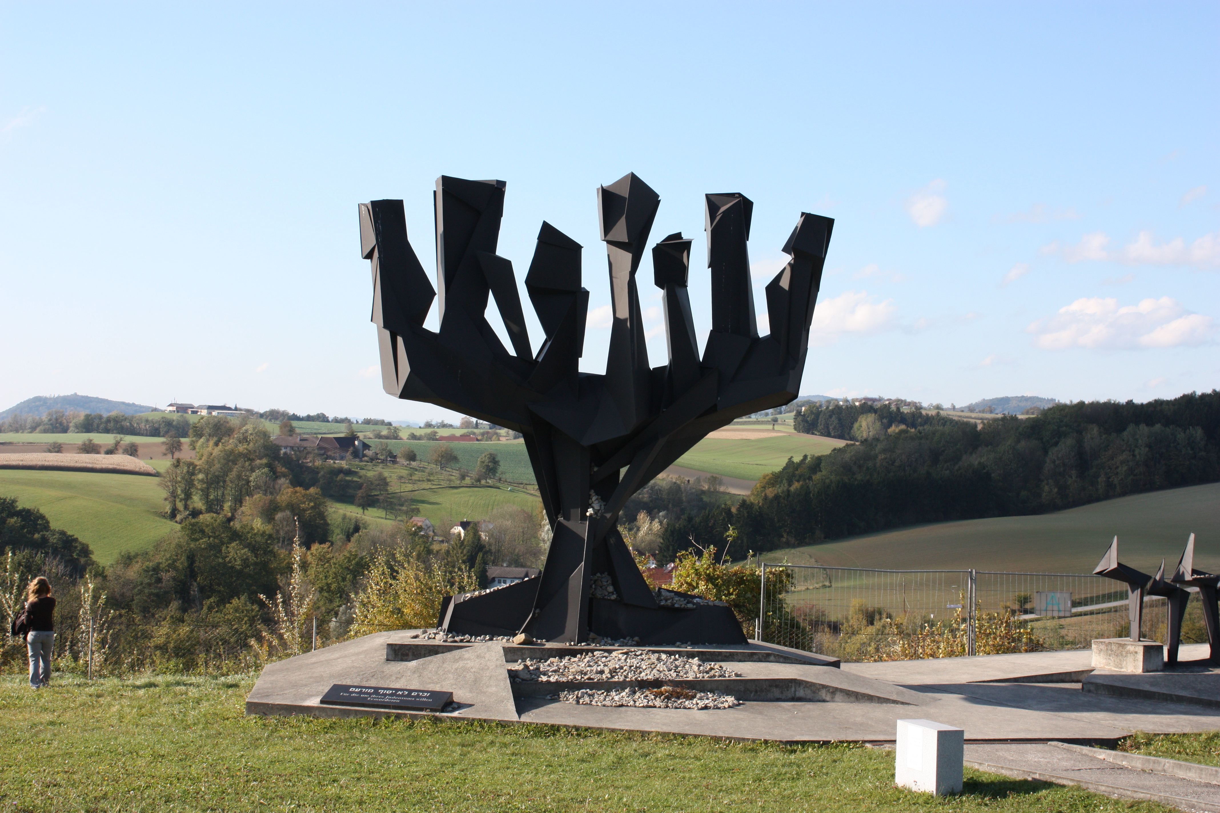 Jewish memorial in Mauthausen, Austria.